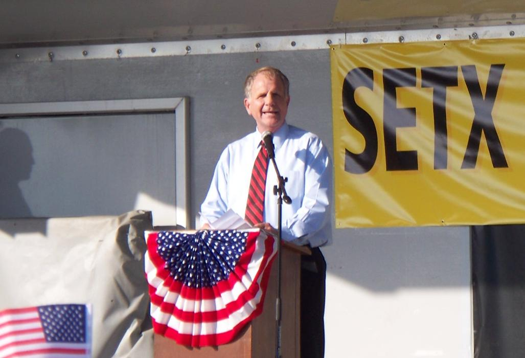 U.S. House of Representatives member Ted Poe at Tea Party 4/15/09.